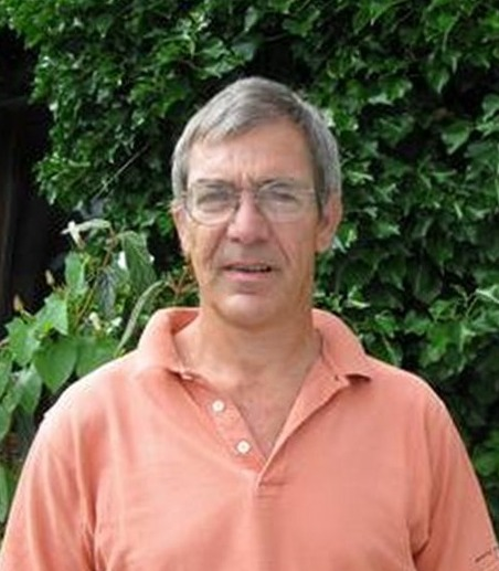 Rene Schoof, Oberwolfach 2009